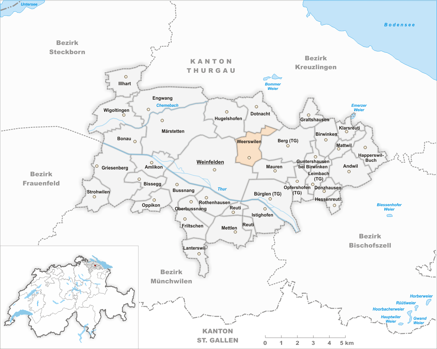 Municipality Weerswilen